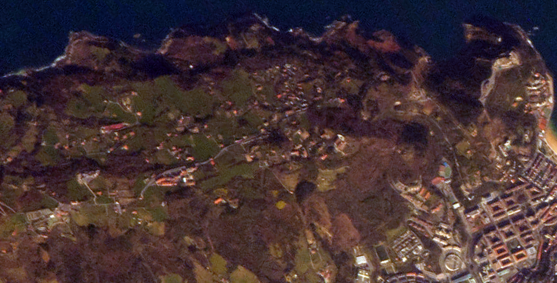 Igeldo, Gipuzkoa, Basque Country